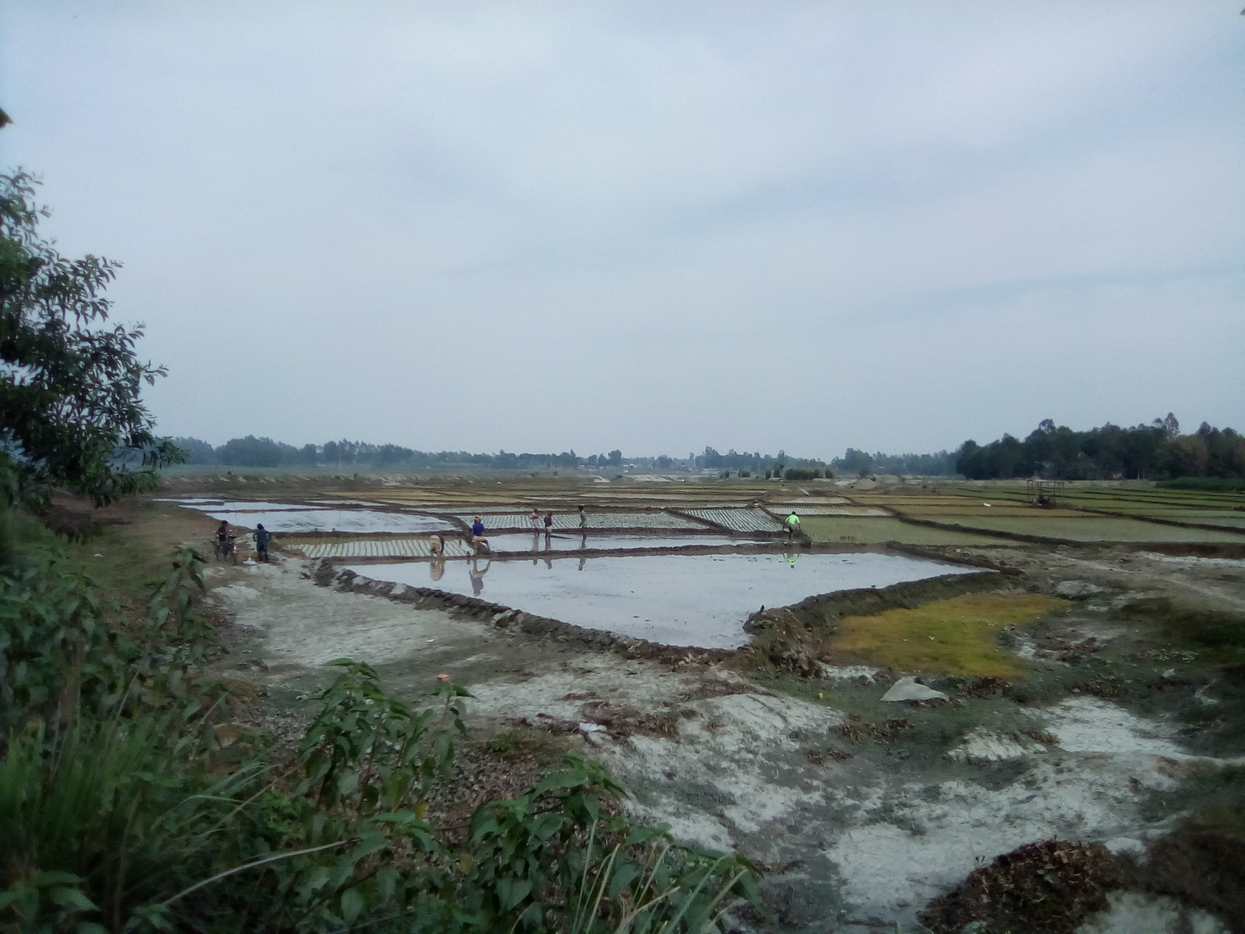 নিচু ফসলের ক্ষেত